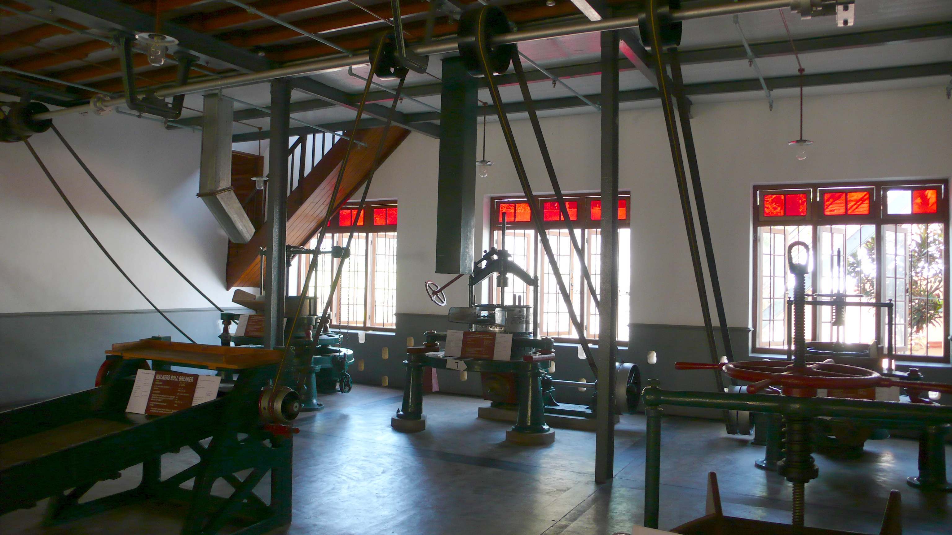 Tea Museum, Kandy, Sri Lanka